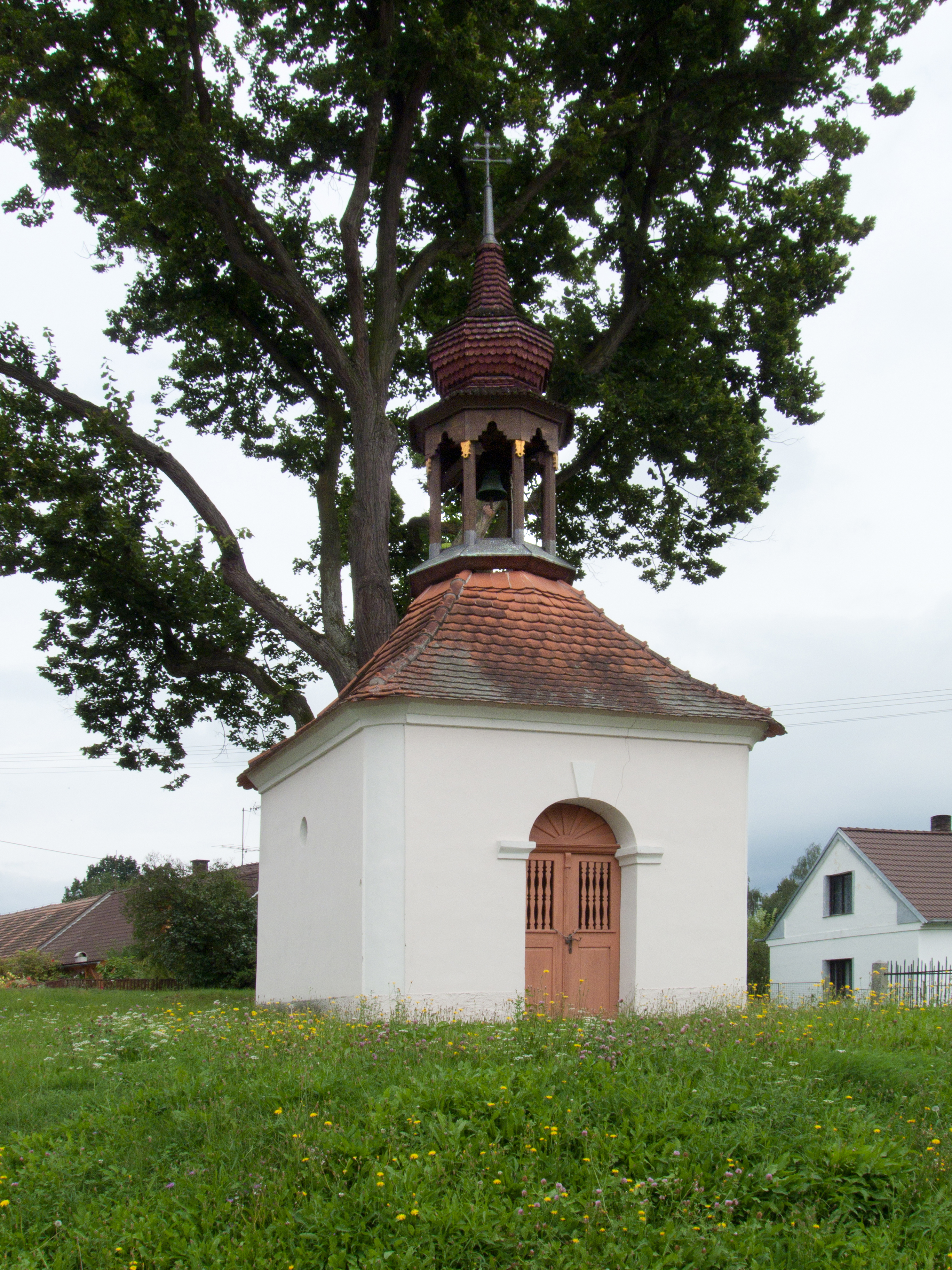 Chapel in the village of Všemyslice, České Budějovice District, Czech Republic